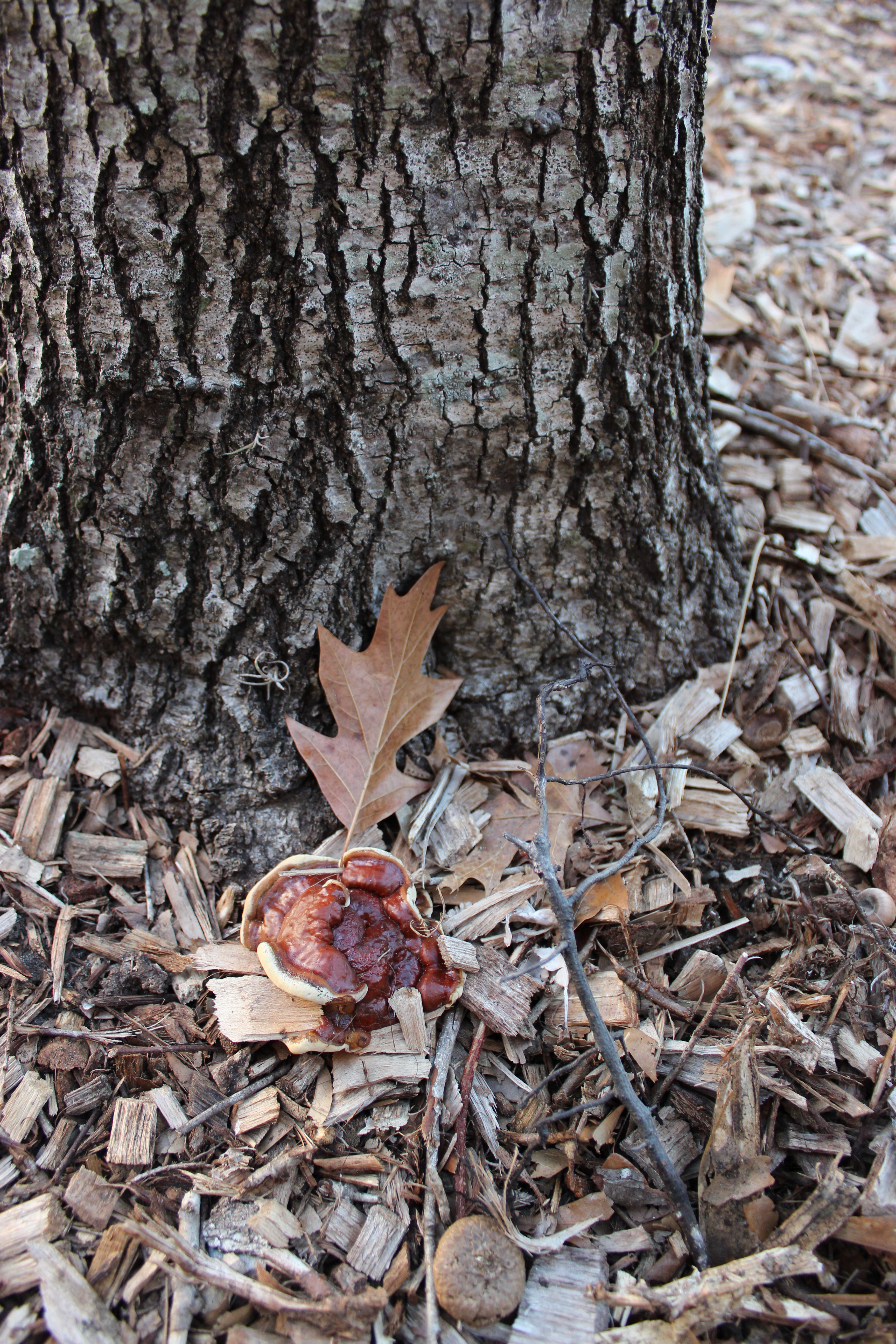 Growing on the root flare of a declining Quercus shumardii in Florida